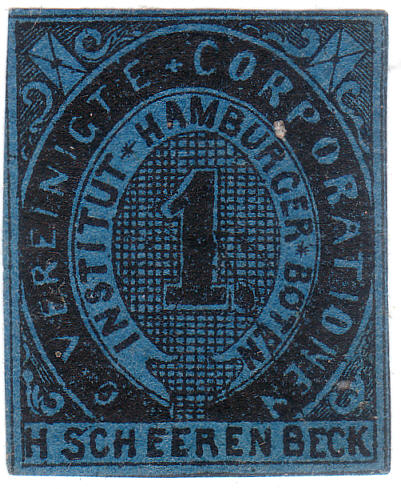 Private local post stamp of the City of Hamburg. Issued 1862 by H. Scheerenbeck.